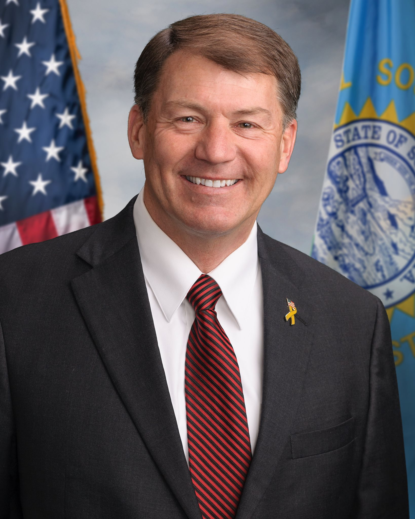 Mike Rounds Senate photo, 114th Congress